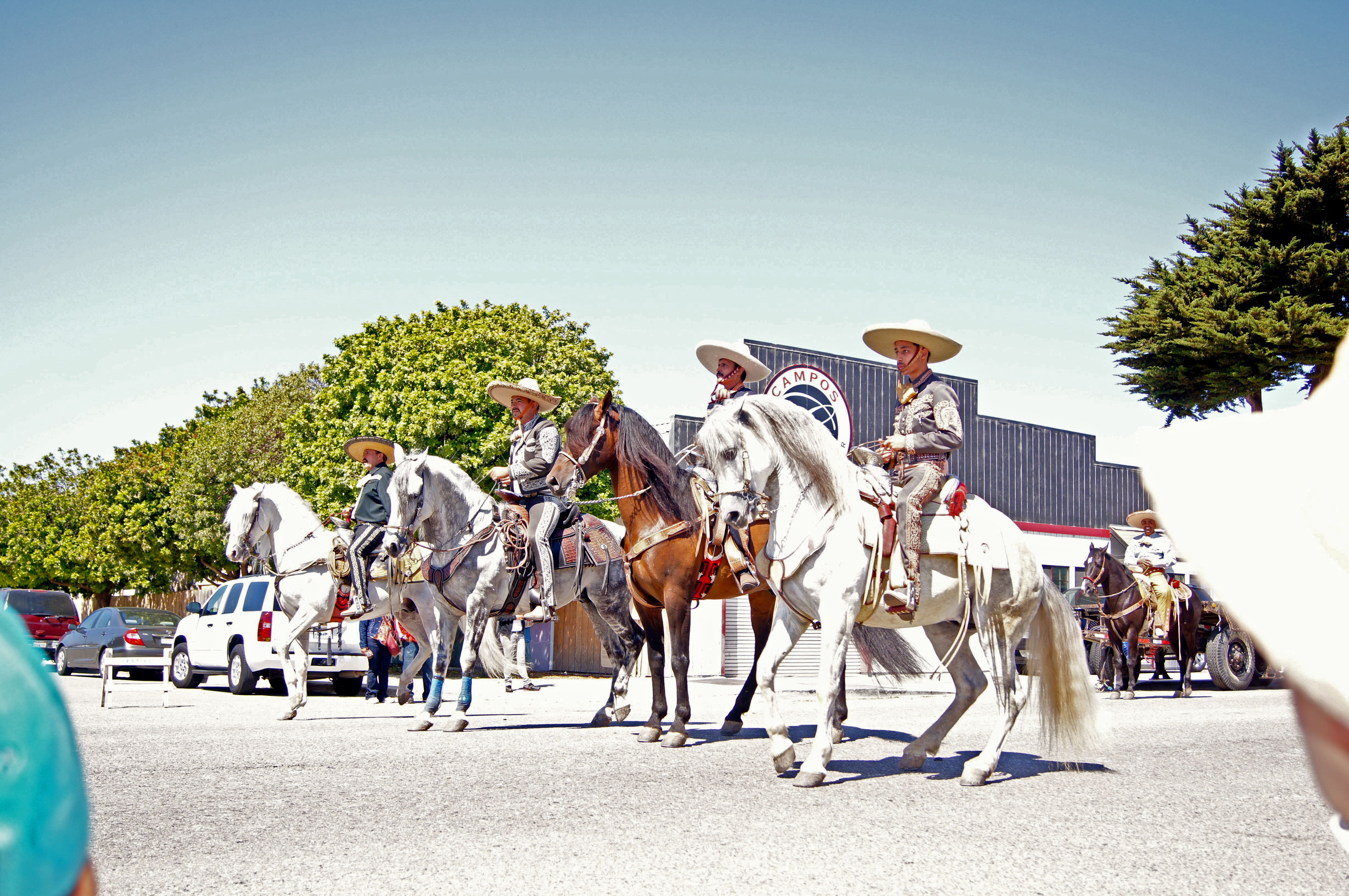 Spanish Cowboys and horses marching in Castroville's Artichoke Parade.